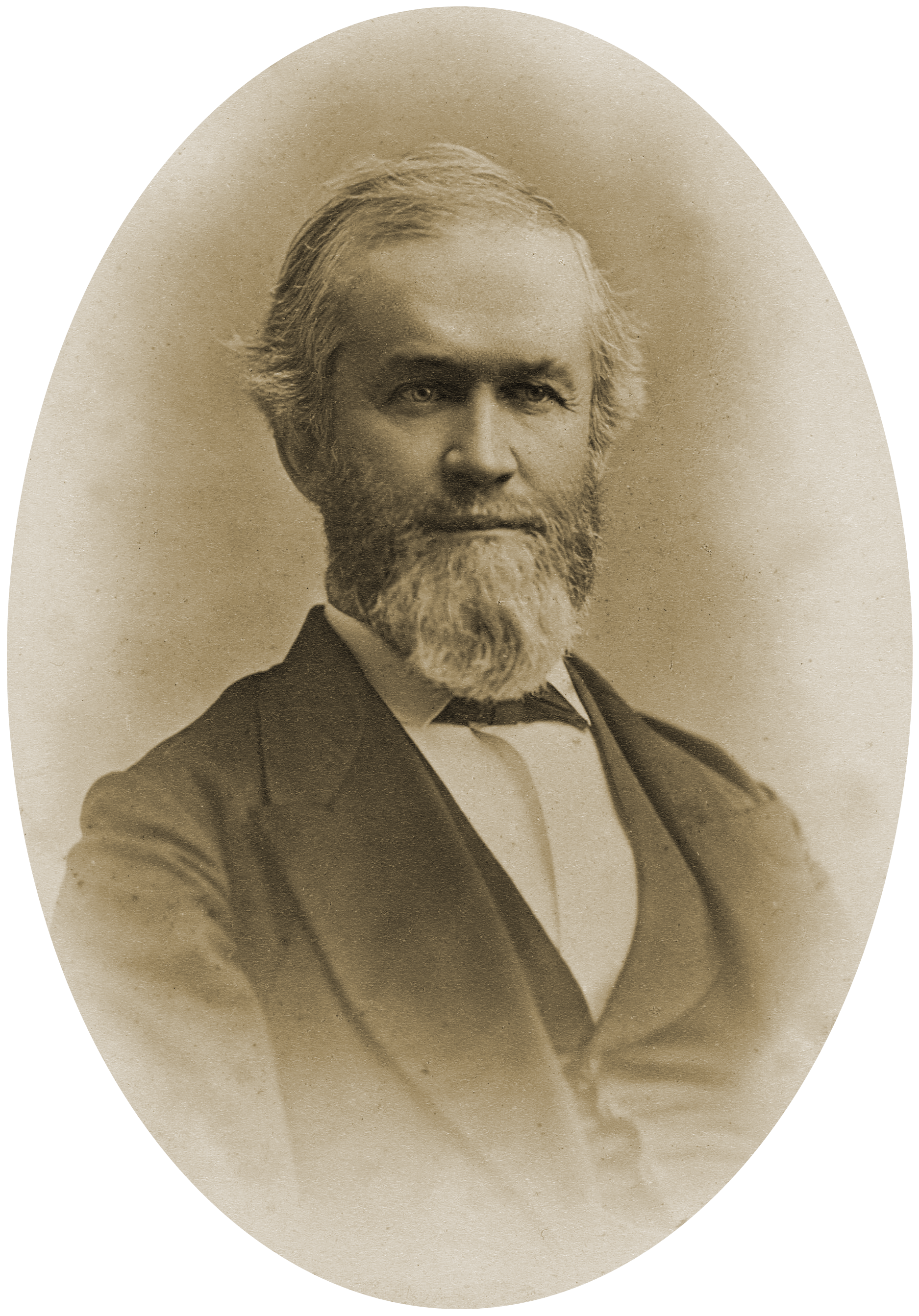 John Brown Baldwin